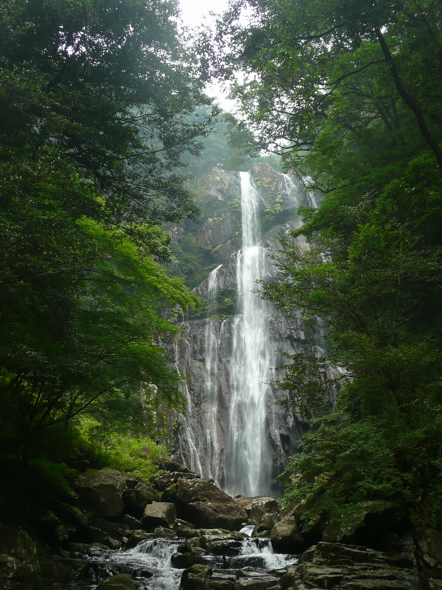 Yatogi Waterfall (Tsuno Town, Miyazaki, Japan)